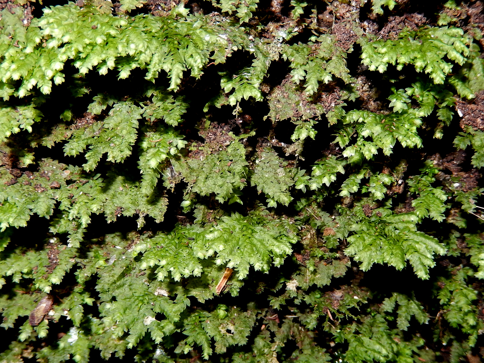 likely to be the common species, Hypopterygium tamarisci. Ferndale Park, Sydney, Australia.